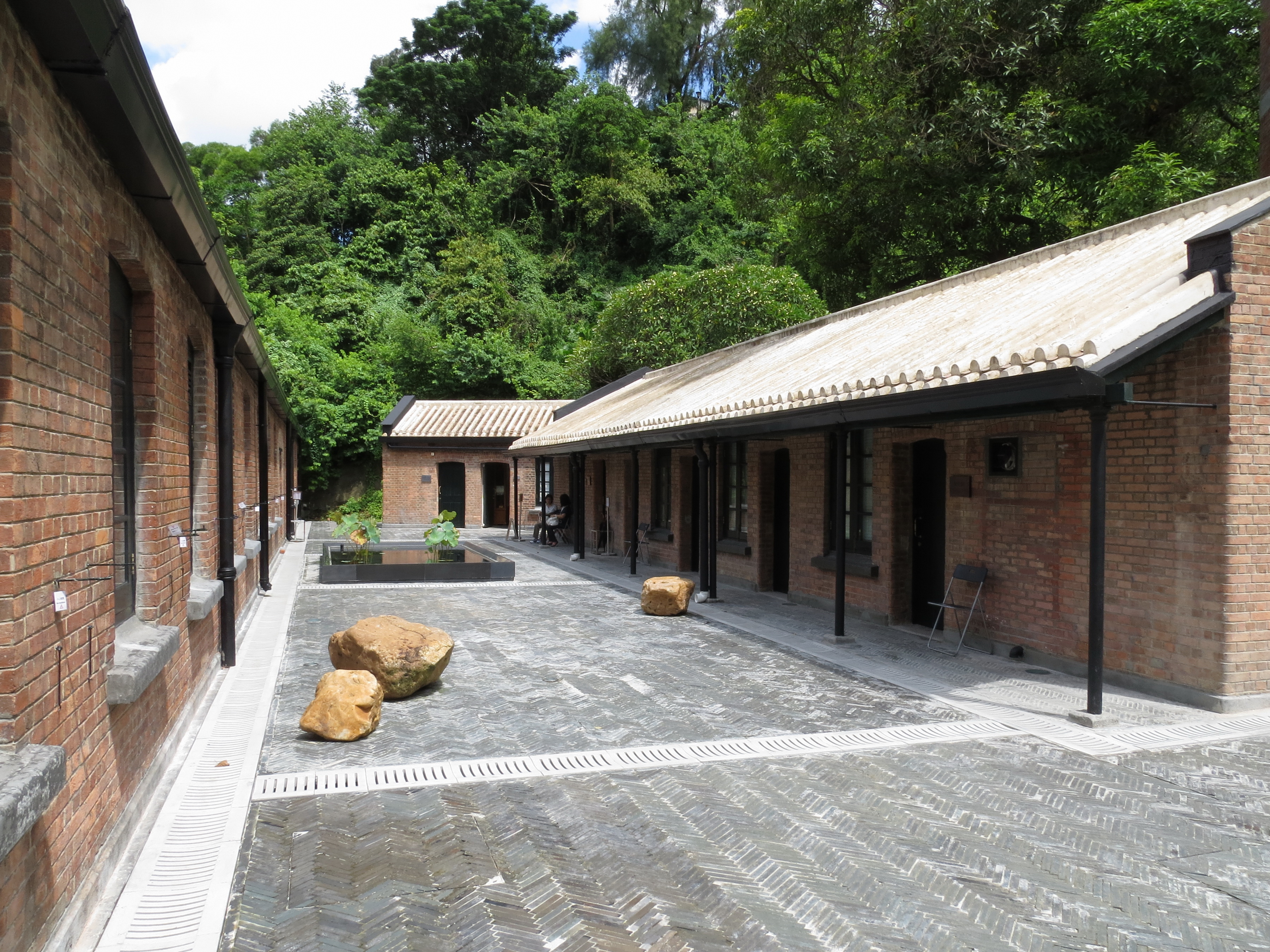 Jao Tsung-I Academy, Lai Chi Kok, Kowloon, Hong Kong.